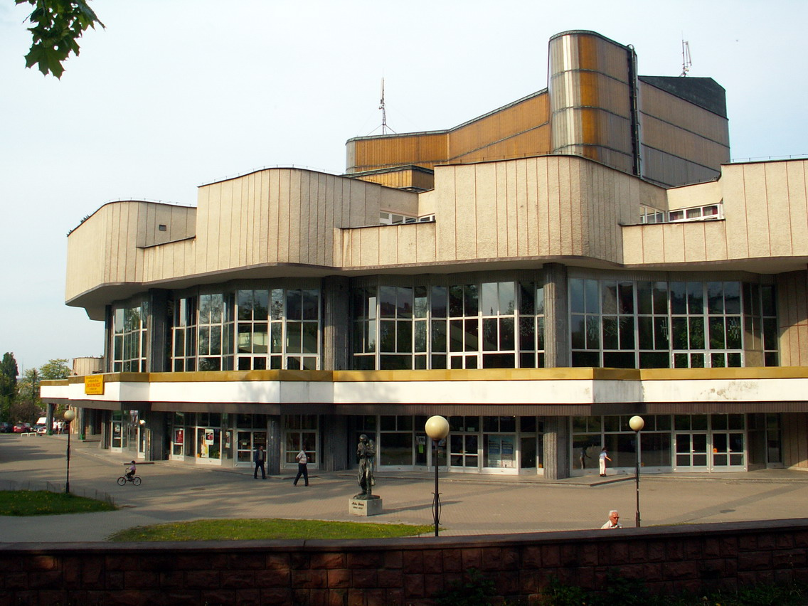 Culture Centre of Kielce (Poland)